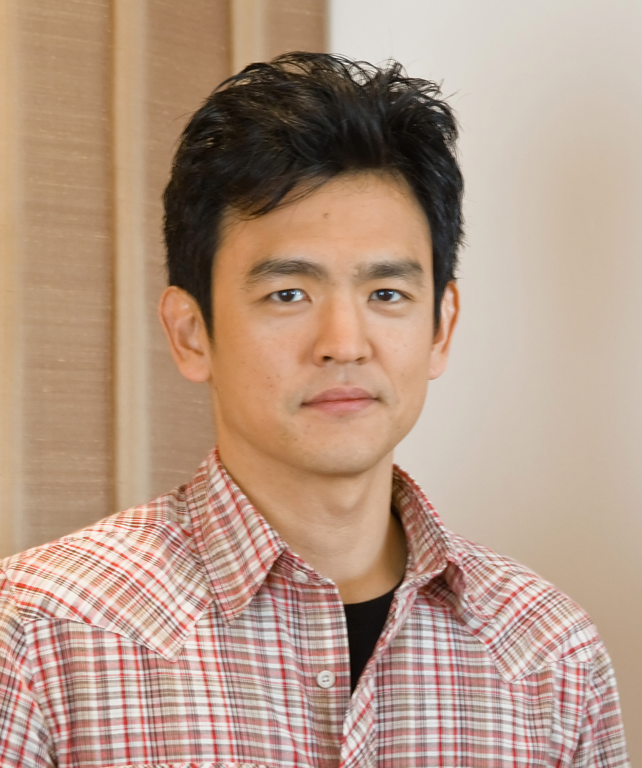 John Cho, promoting Harold & Kumar Escape from Guantanamo Bay